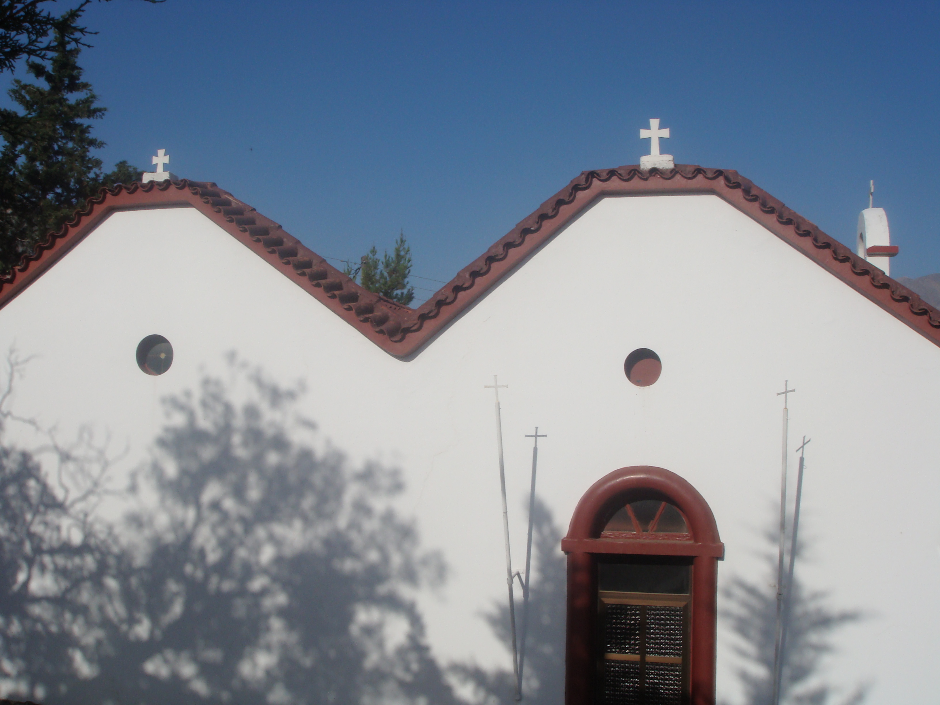 Church of Agioi Anargyroi and Afentis Christos, in Afrati, Iraklion Prefecture.